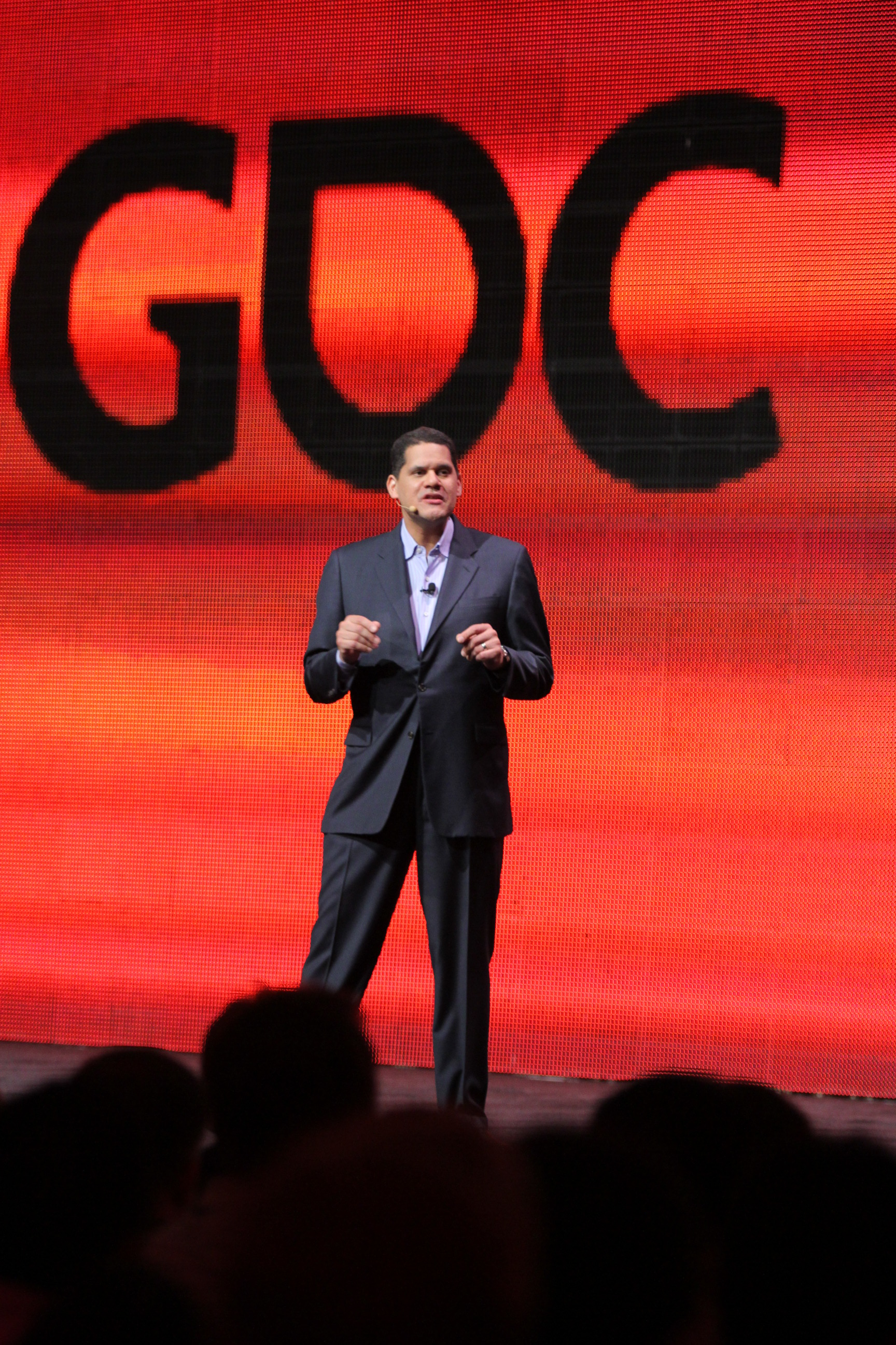 Reggie Fils-Aime at the Game Developers Conference in 2011 (second day), in the Moscone North Hall.